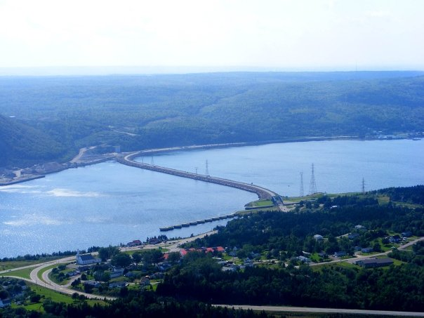 Personal photo taken while on a small aircraft flight over Cape Breton in 2007.